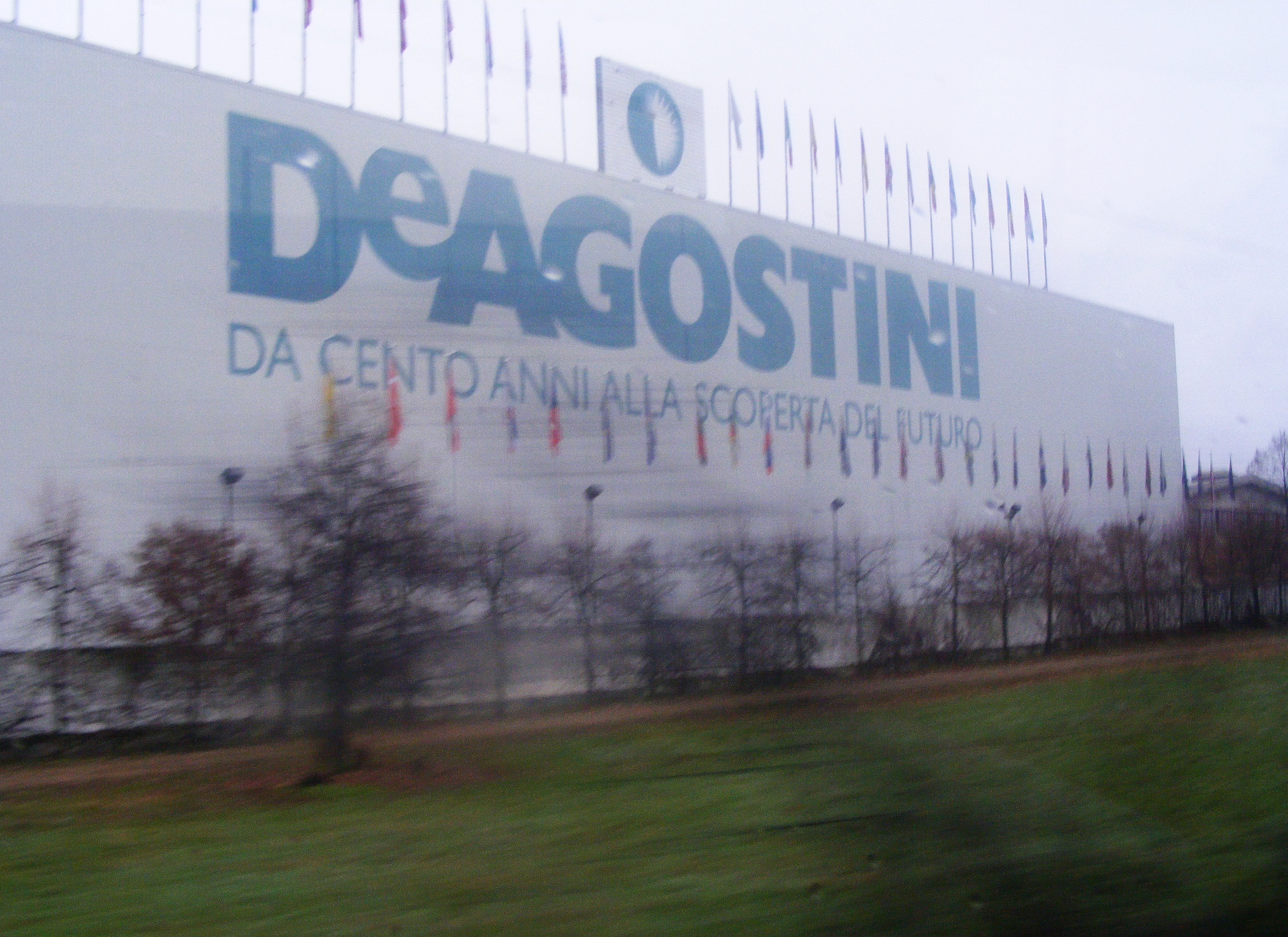 De Agostini Editore S.p.A. publishing house - Novara (Italy)